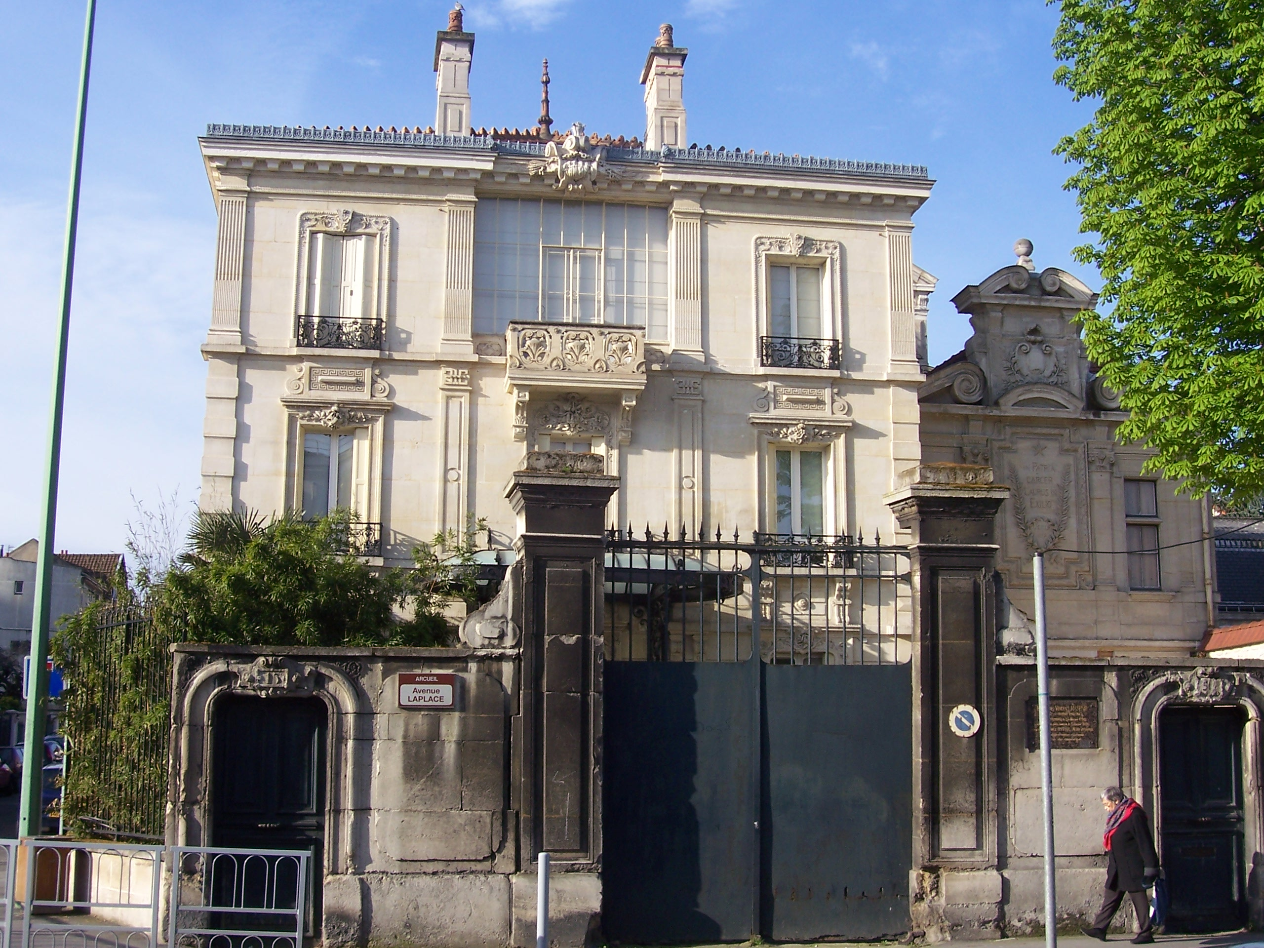 familial house of the Raspail